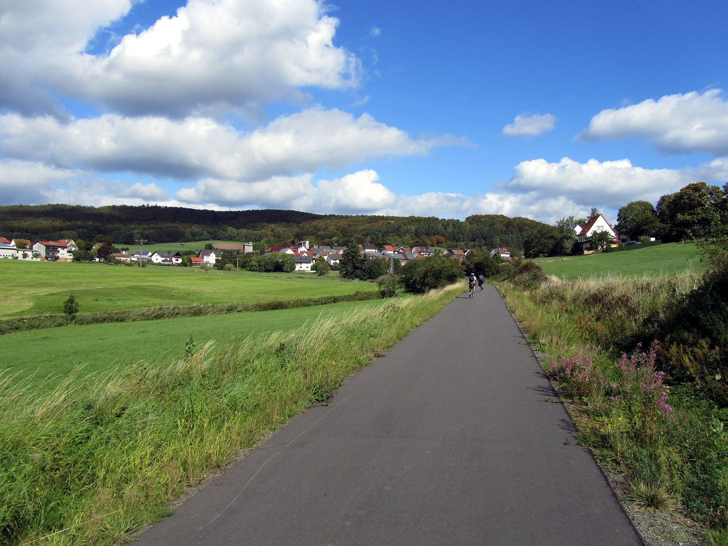 Germany / Hesse: Cycle Way "Rotkäppchen-Radweg" at village "Weißenborn"